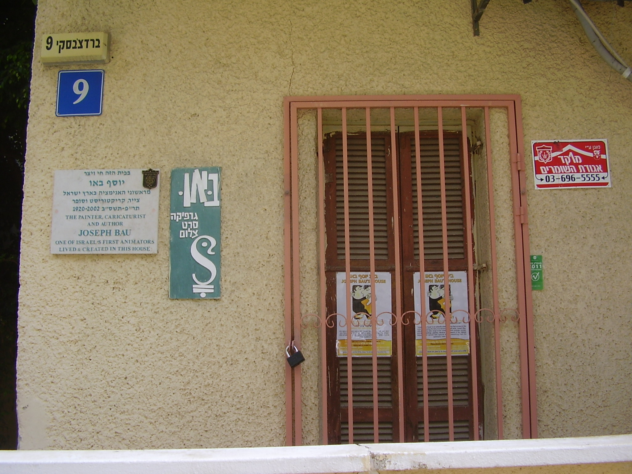 joseph bau museum in tel aviv